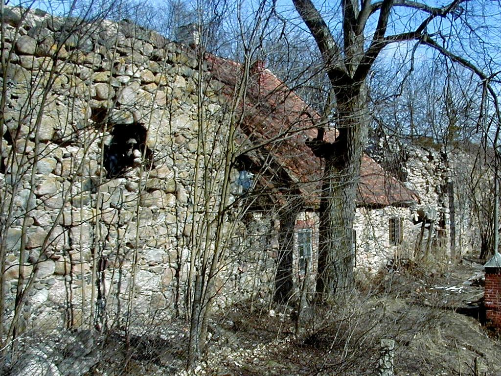 Smiltene Castle ruins